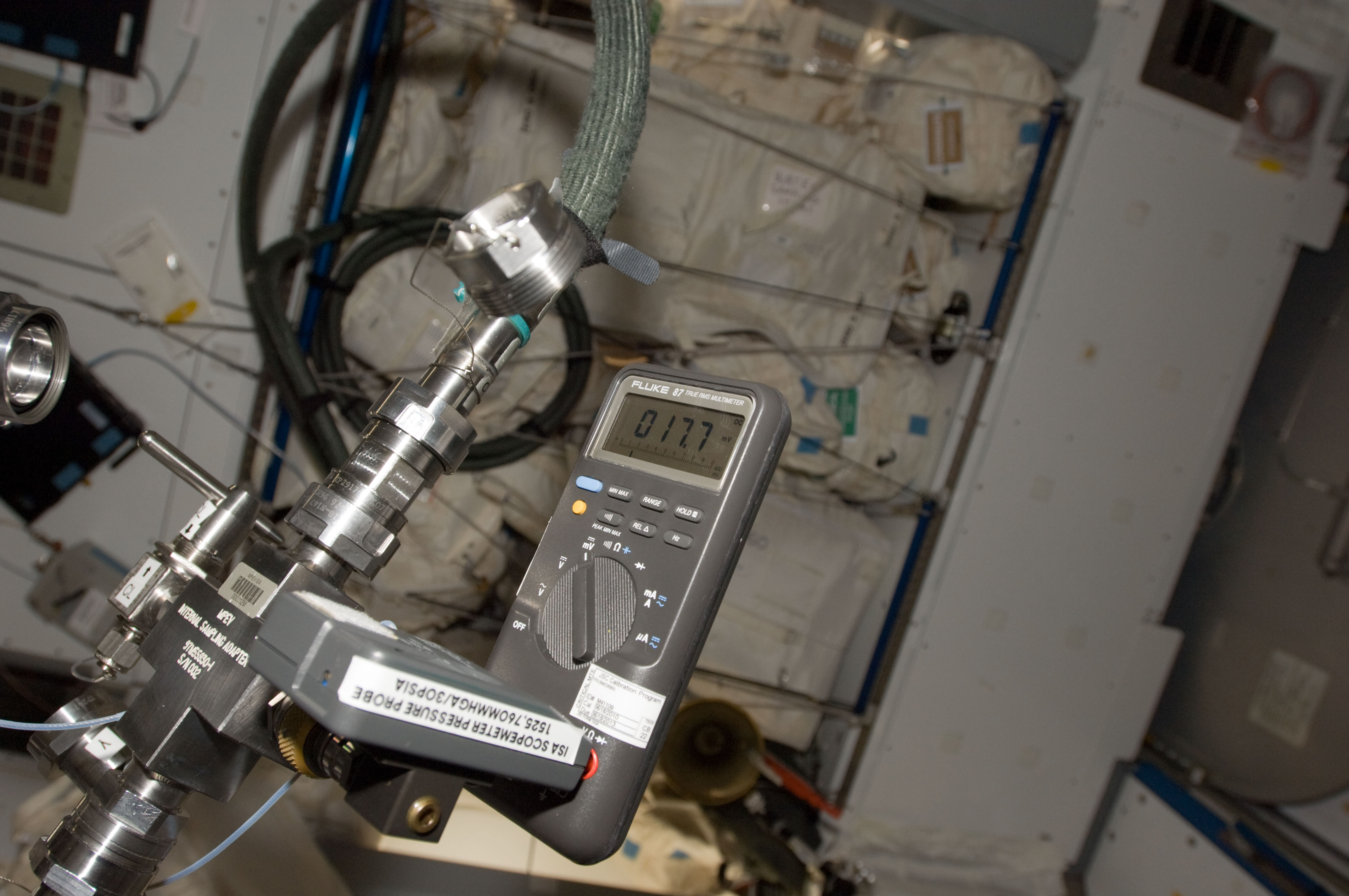 View of the Vacuum Access Jumper (VAJ), Manual Pressure Equalization Valve (MPEV) Internal Sampling Adapter, Scopemeter Pressure Probe and Multimeter. Image was taken during Expedition 28 / STS-135 Harmony Node 2 to Raffaello Multi-Purpose Logistics Module (MPLM) vestibule depressurization.